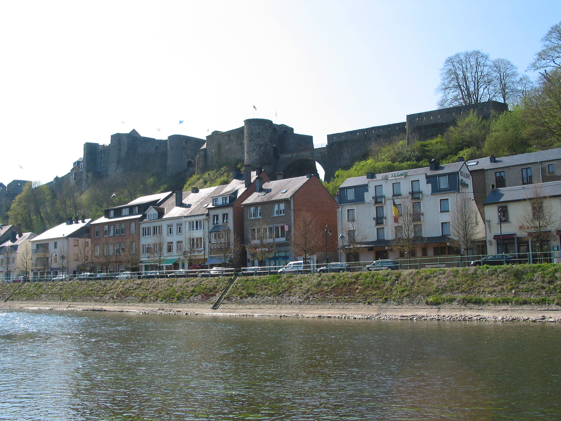 Bouillon (Belgium): the Semois river, the city and the fortified castle (10th–16th centuries).